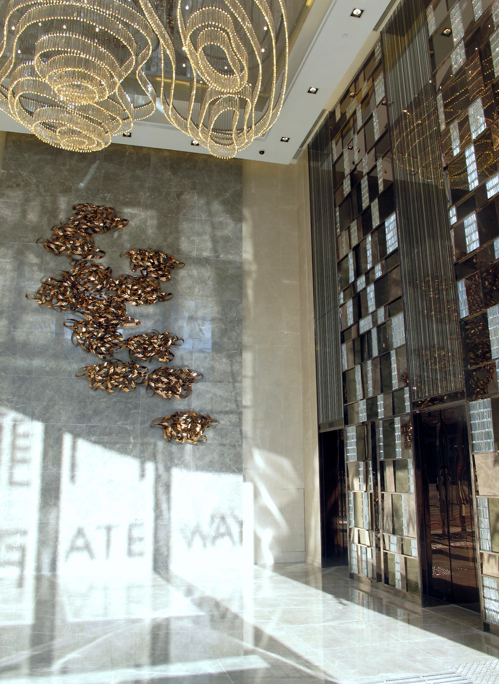 Century Gateway GF Liftlobby